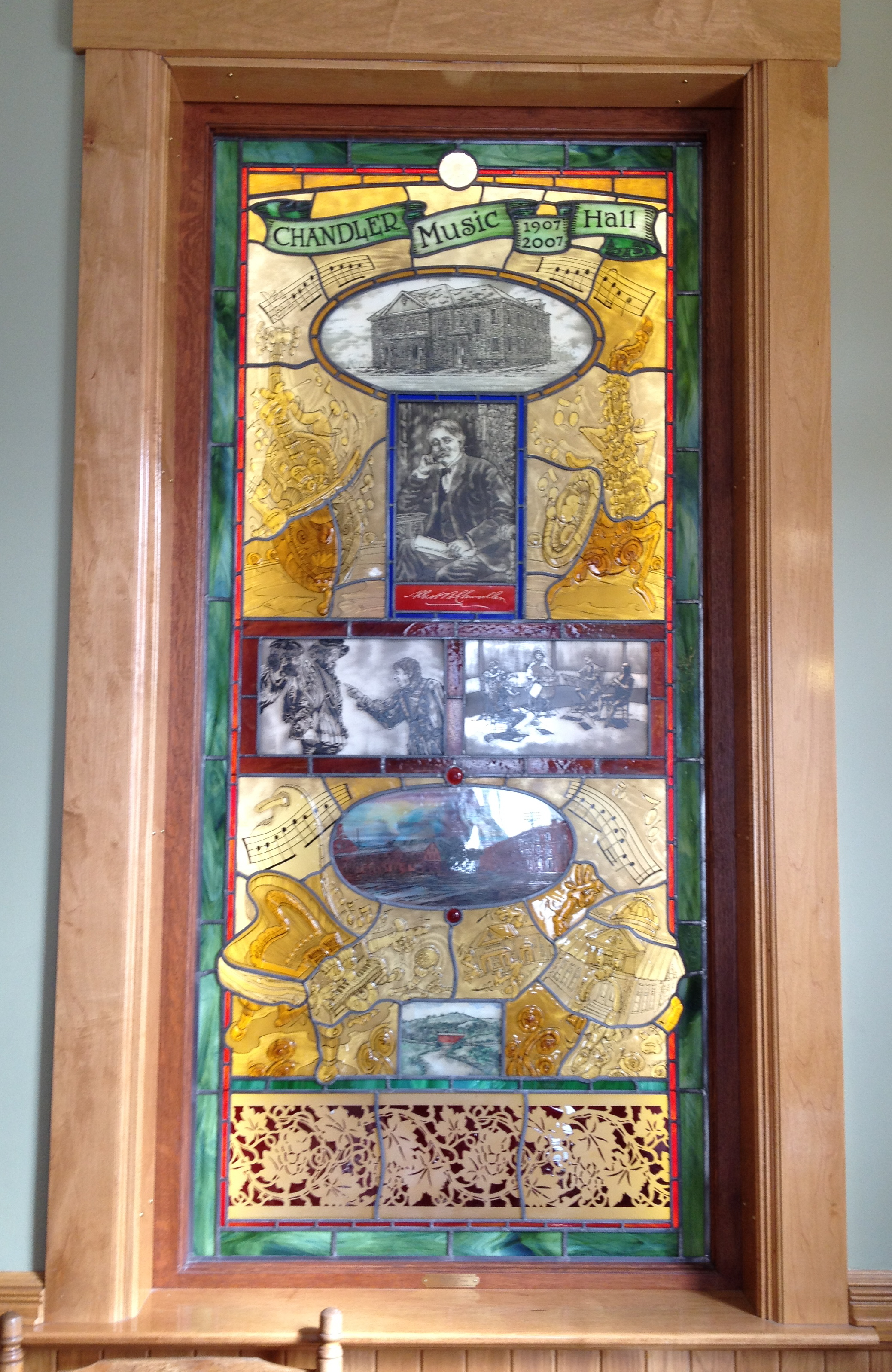 Chandler Music Hall and Bethany Parish House, 71 Main St. Randolph